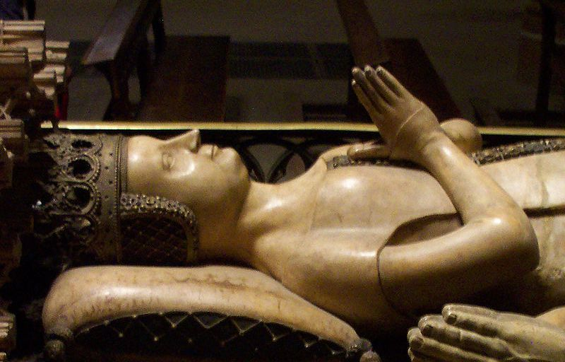 Sculpture of Leonor the Trastamara, Queen of Navarre